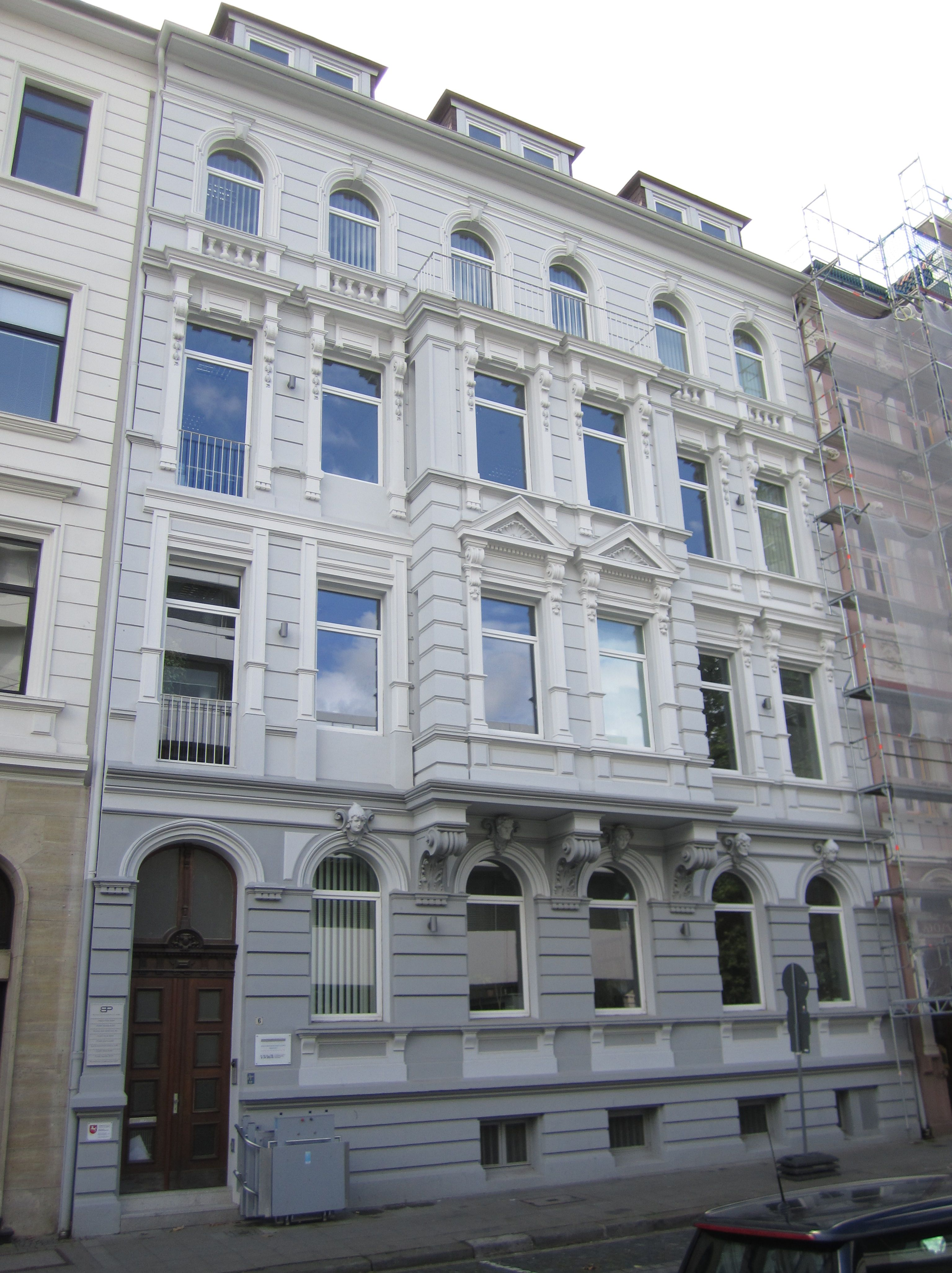 House Arnswaldtstraße 6 in Hanover, Germany.